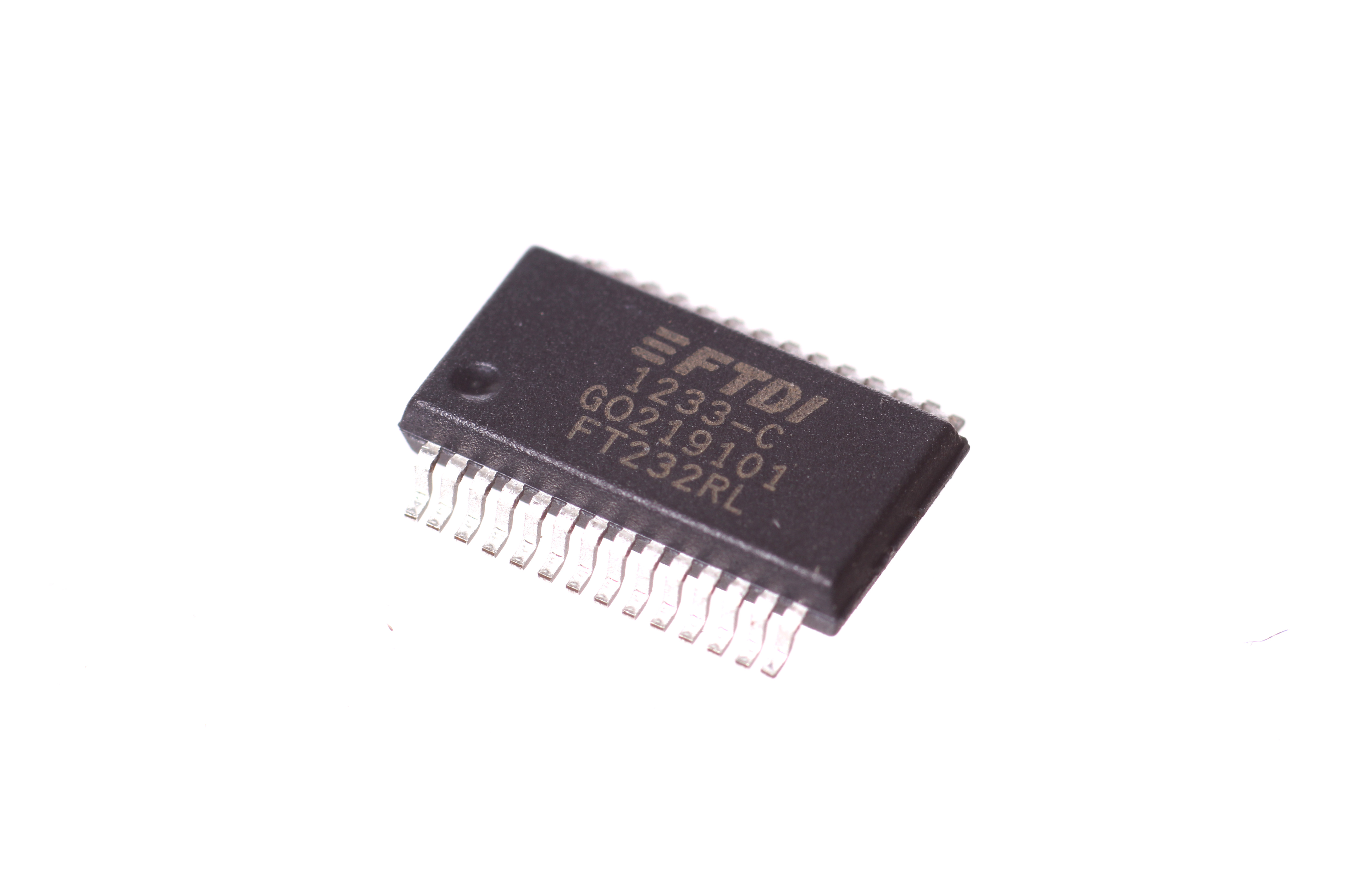 FTDI FT232R USB UART IC (SSOP).